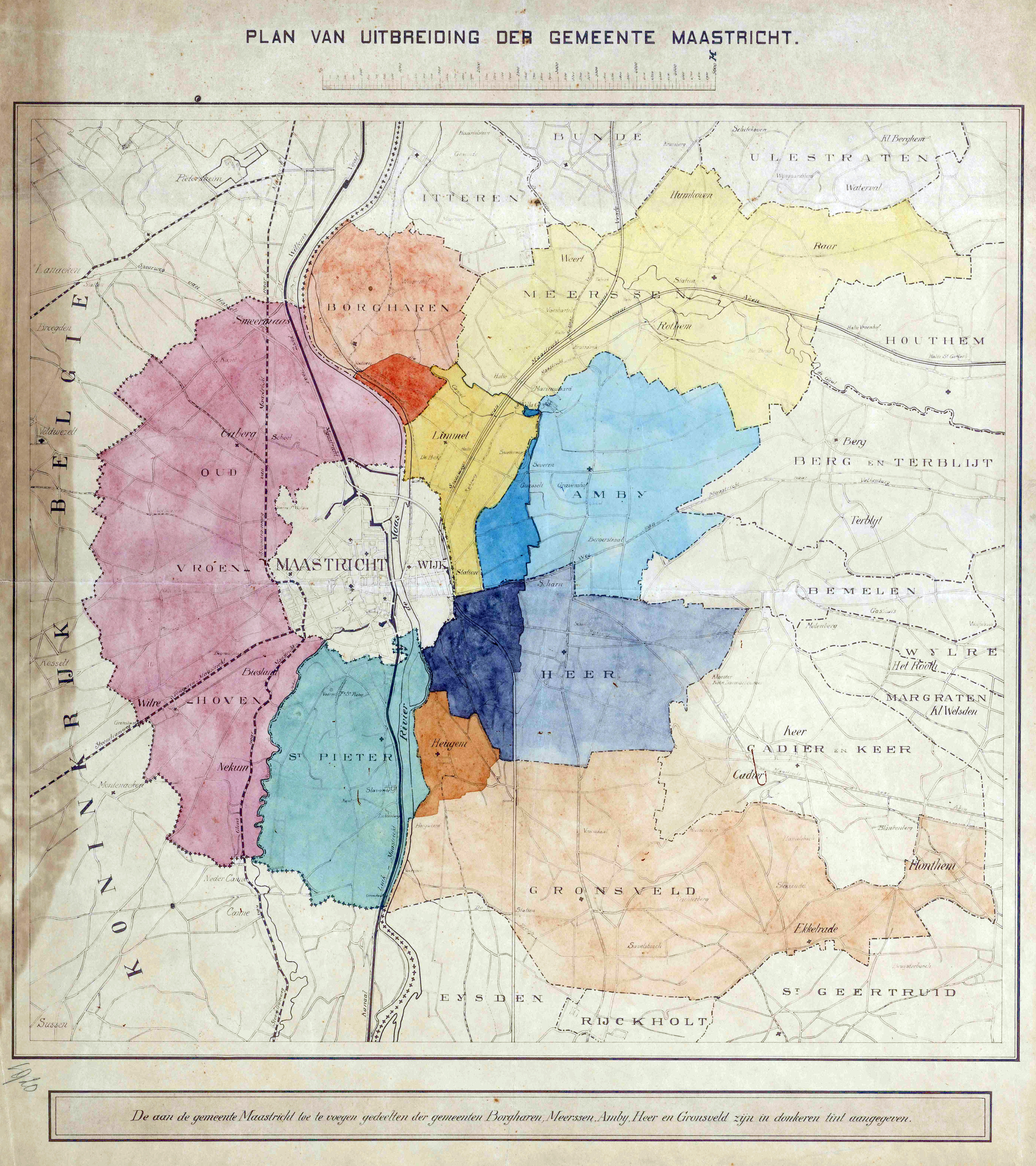 Map of annexation of two municipalities on the left bank of the river Meuse and parts of five other municipalities on the right bank by the city of Maastricht, Netherlands, in 1920. Collection of RHCL Maastricht, RAL K 171 2.